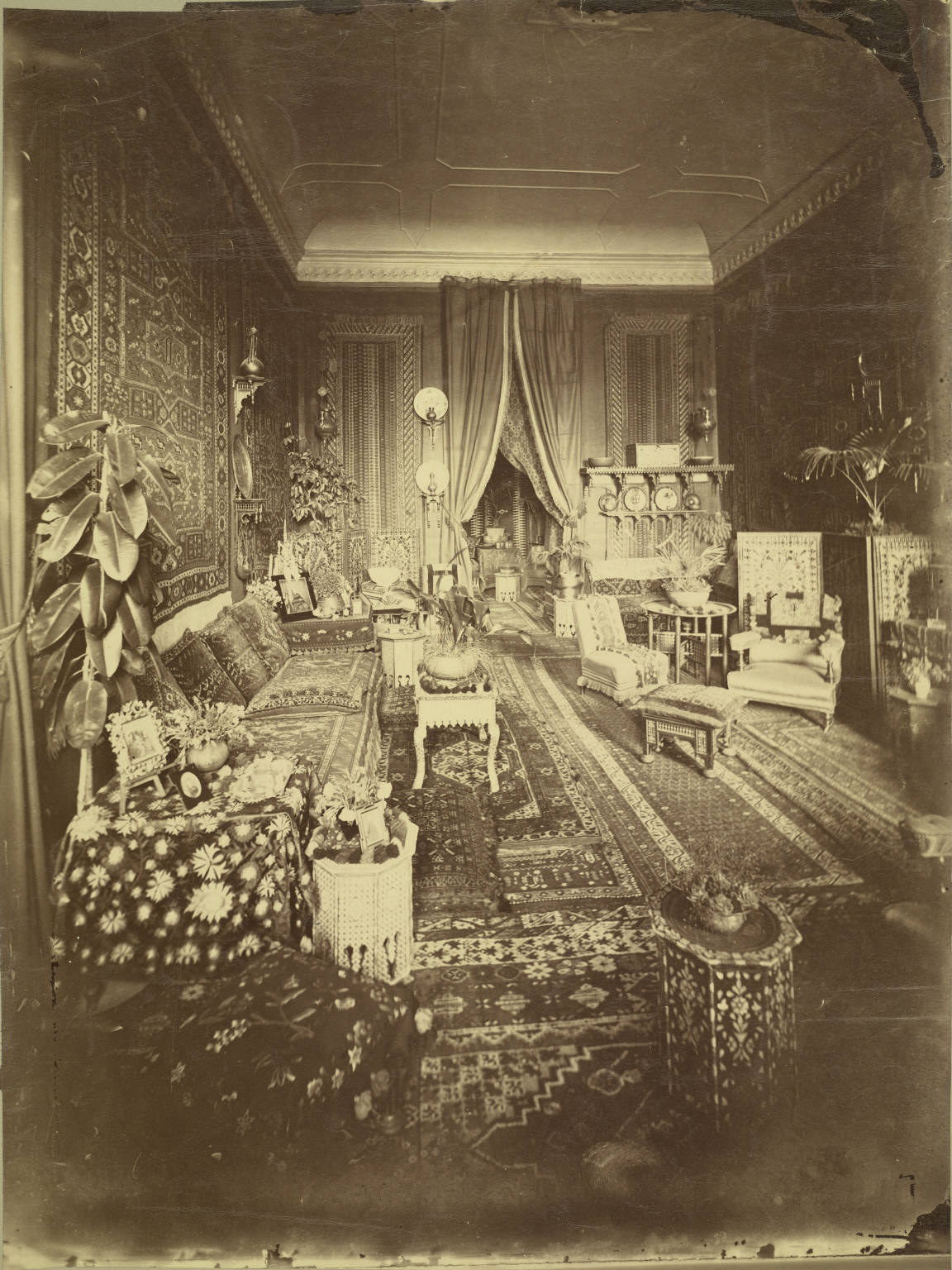 Collection: A. D. White Architectural Photographs, Cornell University Library Accession Number: 15/5/3090.01493 Title: Cairo. Egyptian Home (Interior) Photograph date: ca. 1865-ca. 1889 Location: Africa: Egypt; Cairo Materials: albumen print Image: 14.9606 x 11.1024 in.; 38 x 28.2 cm Style: Modern Egyptian Provenance: Gift of Andrew Dickson White Persistent URI: There are no known U.S. copyright restrictions on this image. The digital file is owned by the Cornell University Library which is making it freely available with the request that, when possible, the Library be credited as its source. We had some help with the geocoding from Web Services by Yahoo!